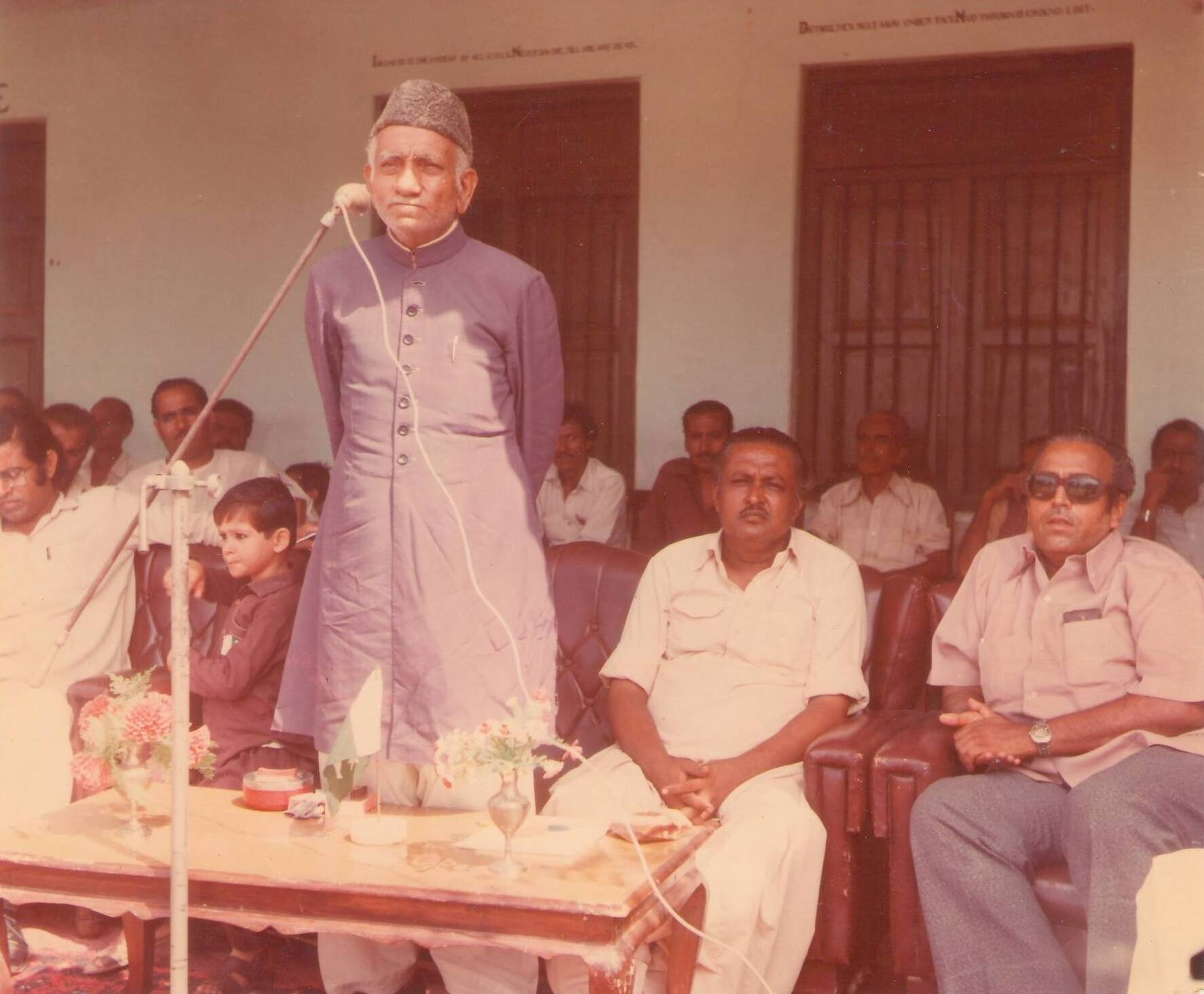 Nihalchand Pabani giving a speech on 14 August (Independence Day)